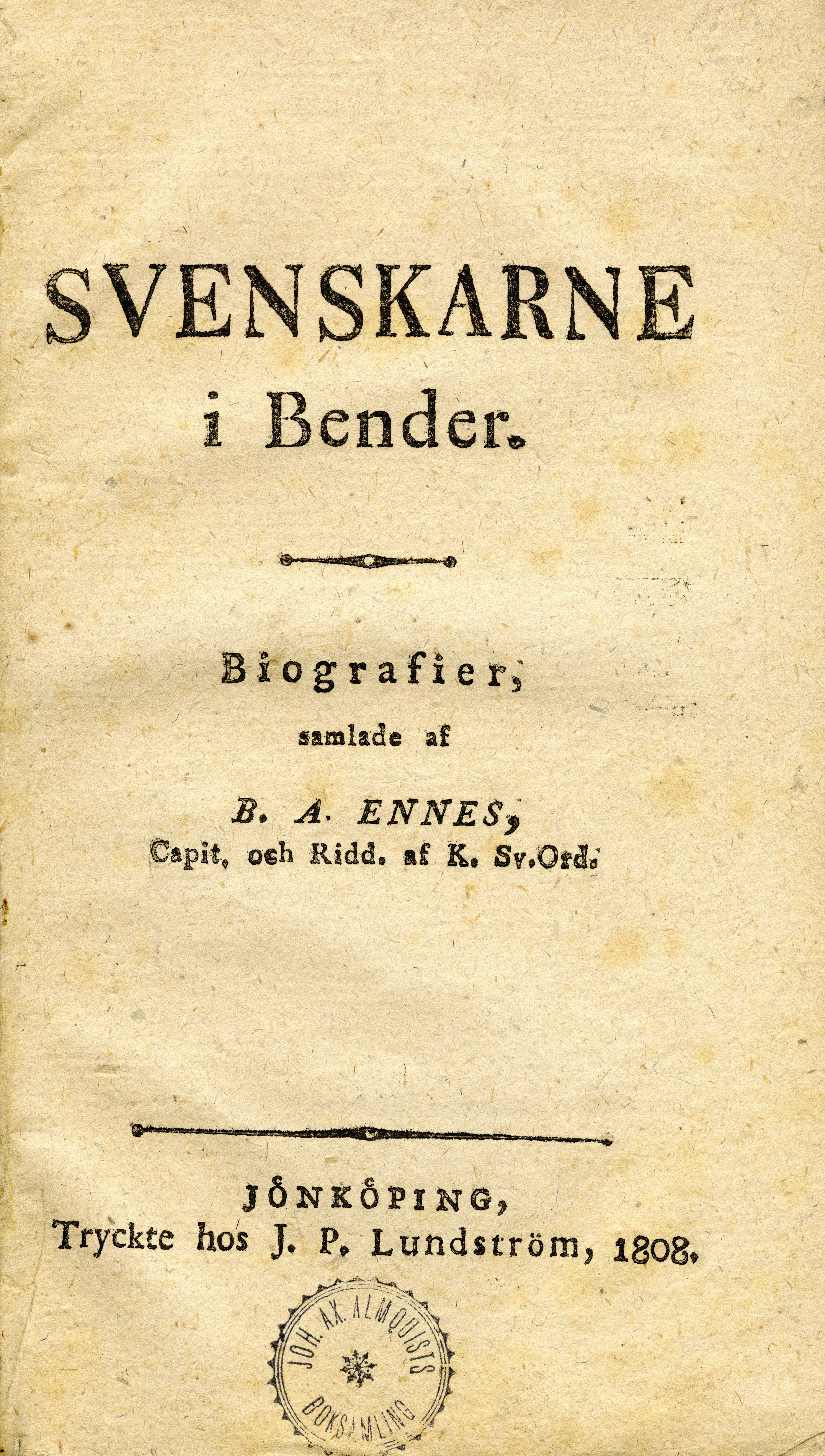 The title page of Svenskarne i Bender. Biografier, (i.e. "The Swedes in Bender: Biographies") (1808) by Barthold Anders Ennes. Printed 1808 by J. P. Lundström in Jönköping.